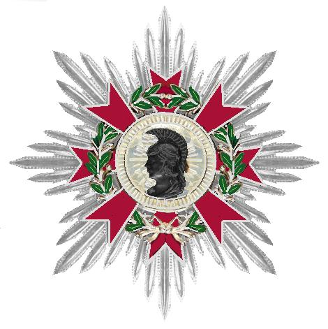 Orderof the Spanish Republic Grand Officer